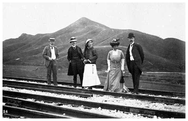 Acting Governor, Sir Henry May, and his wife inspecting tracks